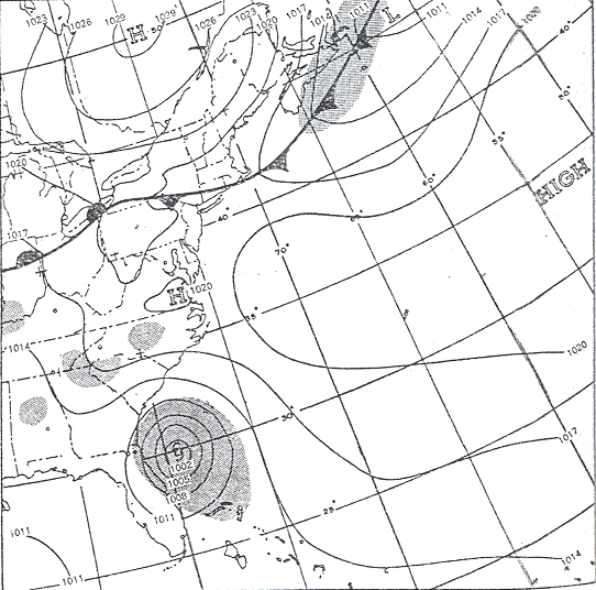 Surface weather map for 1230 GMT, August 30, 1952. Shading indicates areas of active precipitation Hurricane Able is seen at the bottom of the image, about to strike South Carolina